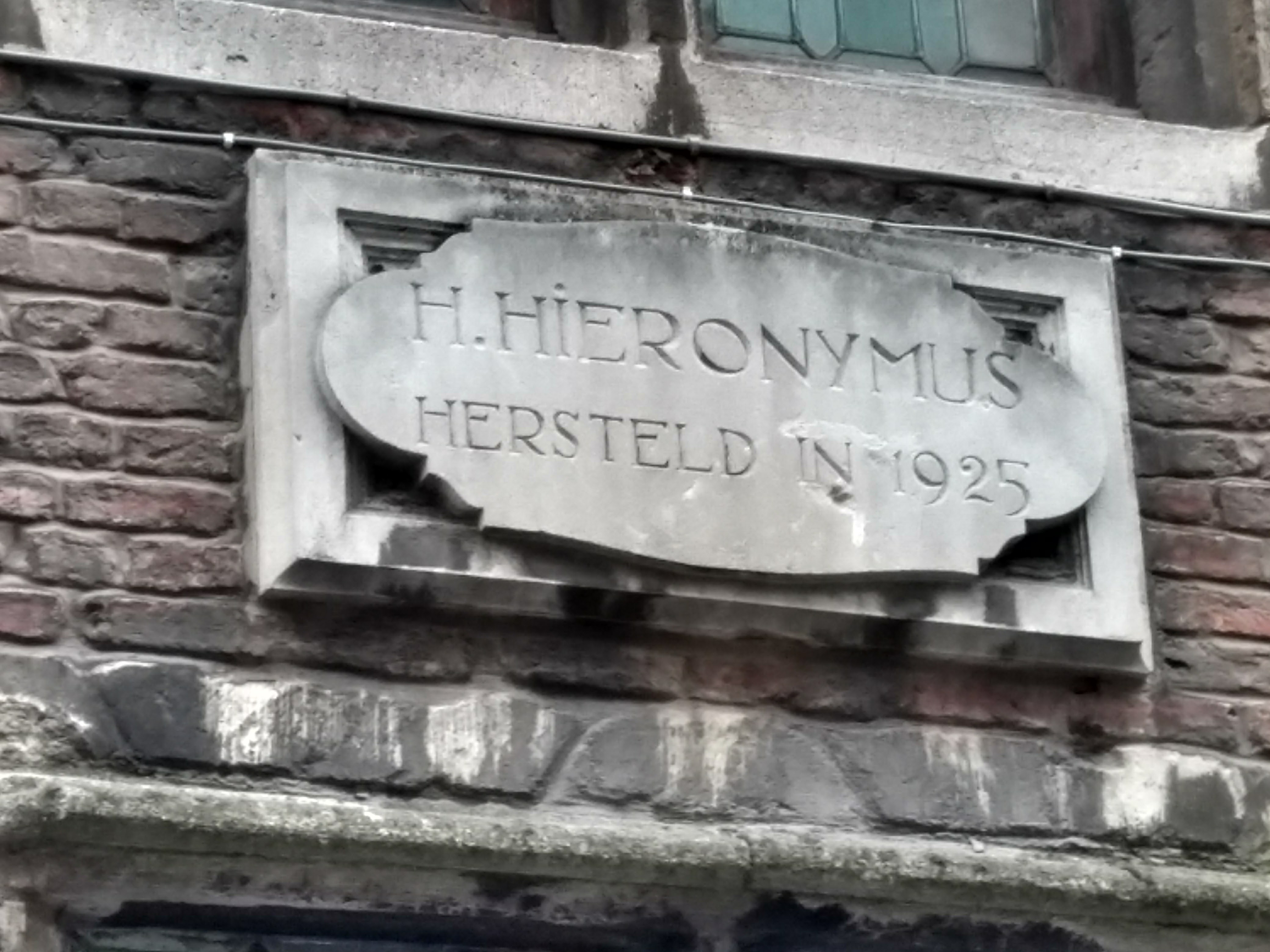 hieronymous Everdijstraat 10